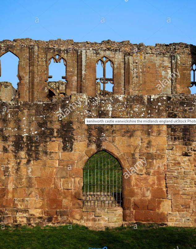 Стіна із червоного пісковика